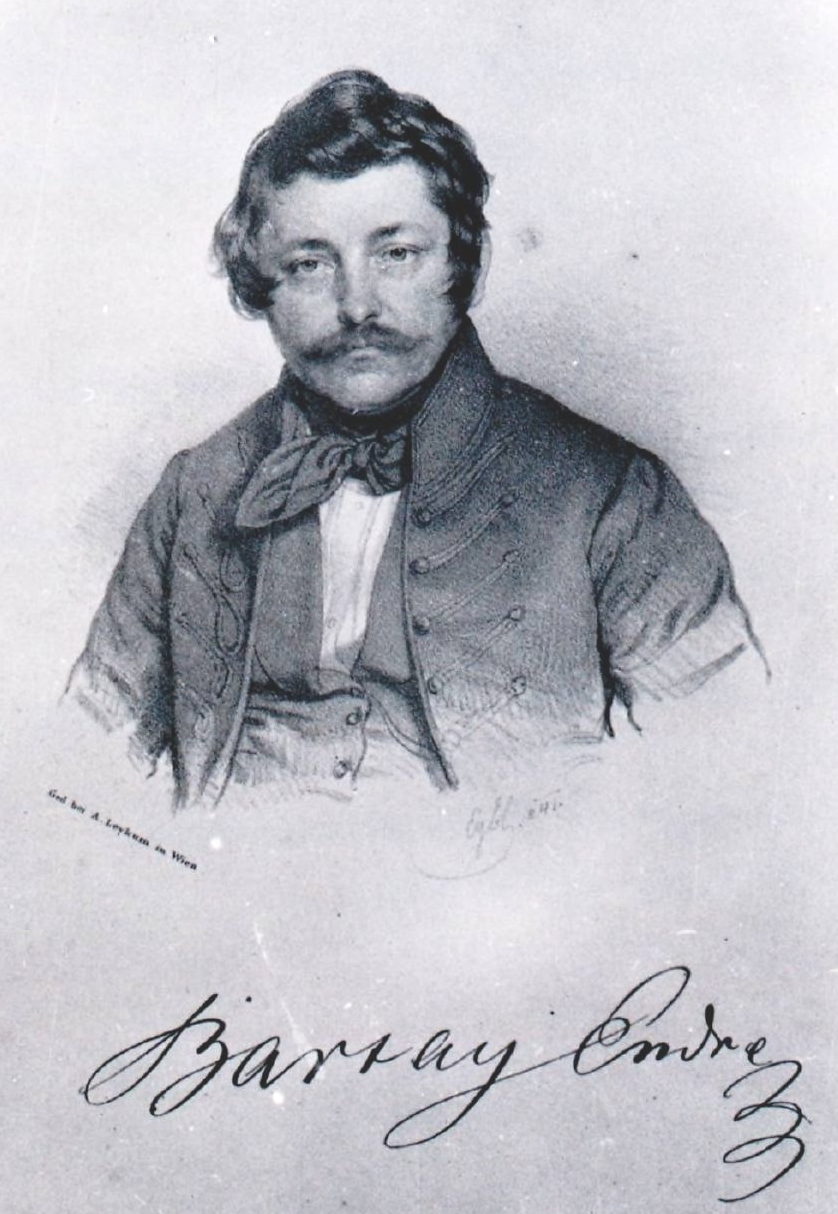 Hungarian composer Endre Bartay, aka András Bartay (1799-1854), after a lithograph by Franz Eybl (1806-1880).